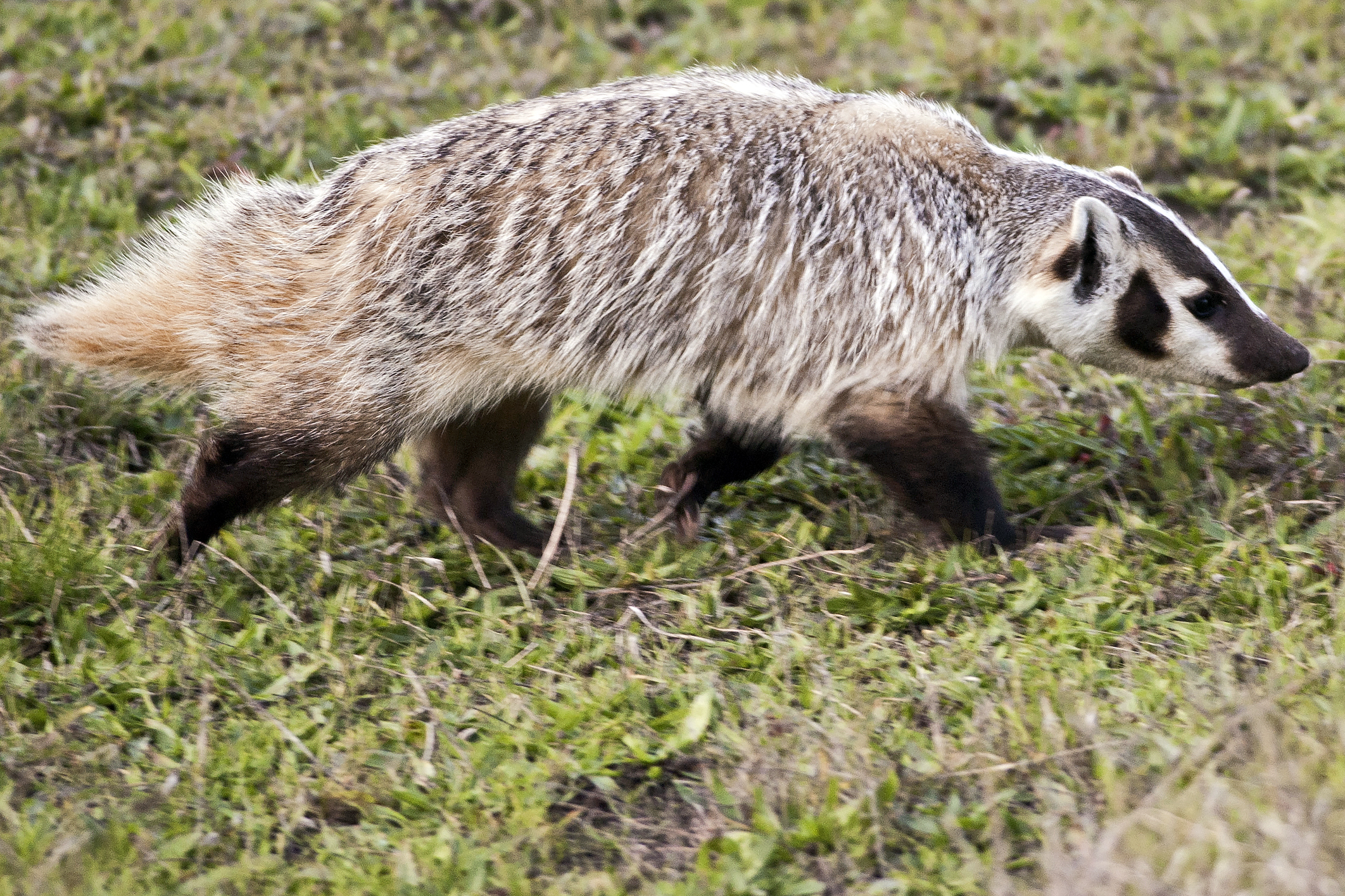 American badger walking in Point Reyes National Seashore